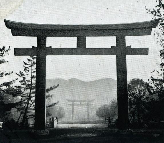 Postcard of a stone bridge and two torii gates on the approach to Kashihara Shrine in Kashihara, Nara Prefecture.